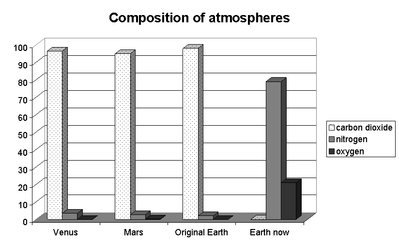 Comparison of atmospheres of Venus, Earth and Mars (bar-chart).